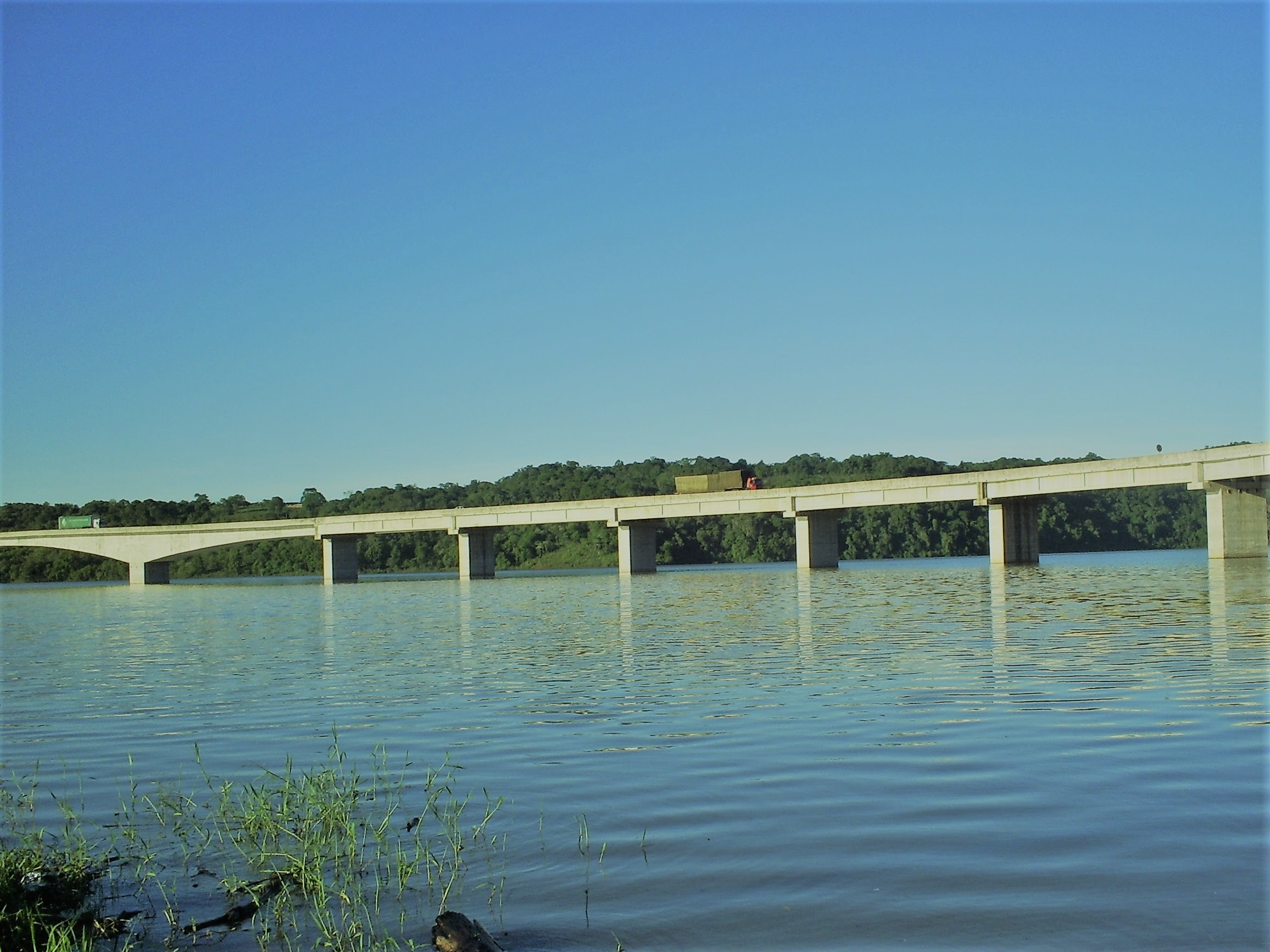 Ponte Rio Uruguai (divisa SC e RS)